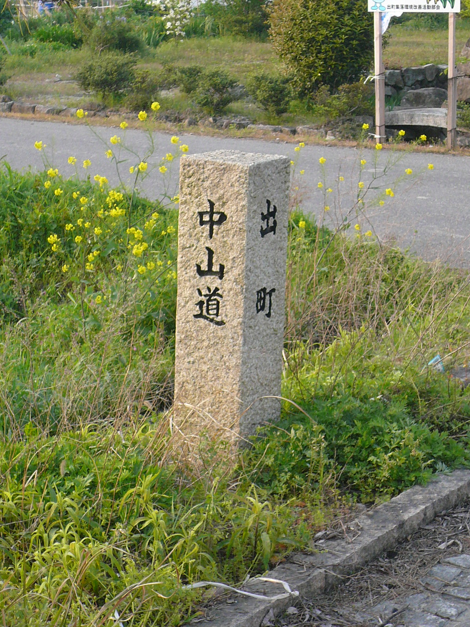 A picture taken while walking along the Nakasendo. This one was near Takamiya-juku